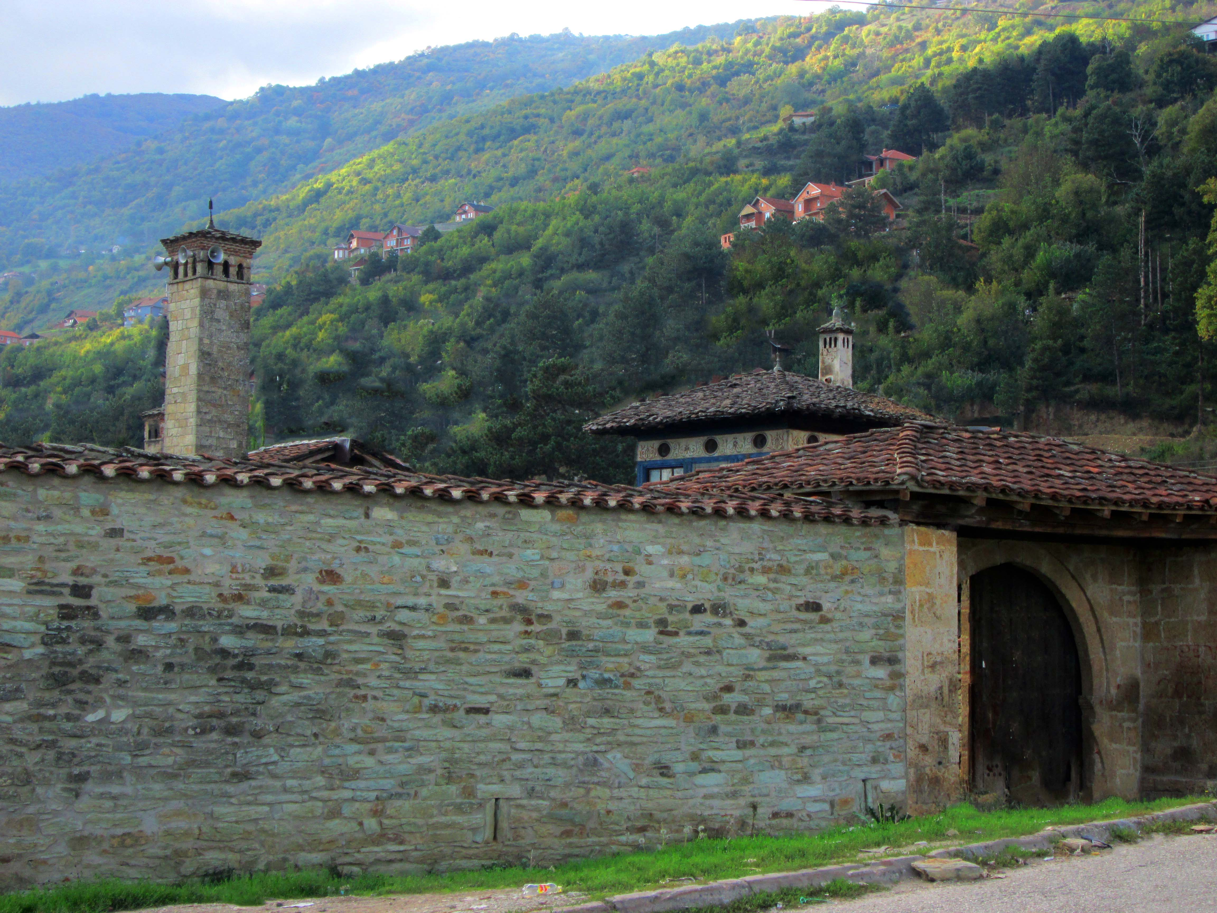 Arabati Baba Tekke in Tetovo was built in 1538 around the türbe of Sersem Ali Baba, an Ottoman dervish, in 1799, a waqf provided by Recep Paşa established the current grounds of the tekke the finest surviving Bektashi monastery in Europe, the sprawling complex features flowered lawns, prayer rooms, dining halls, lodgings and a great marble fountain inside a wooden pavilion.